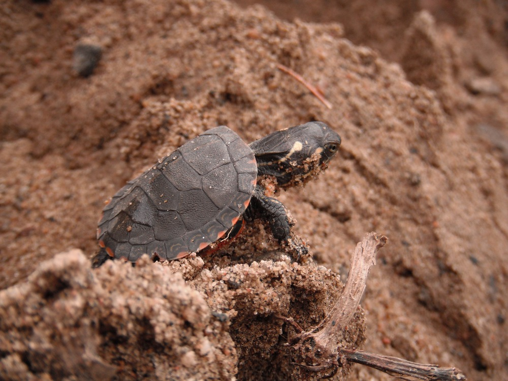 Hatchling Midland Painted Turtle, Chrysemys picta marginata, shortly after emerging from its nest. Algonquin Provincial Park, Ontario, Canada.